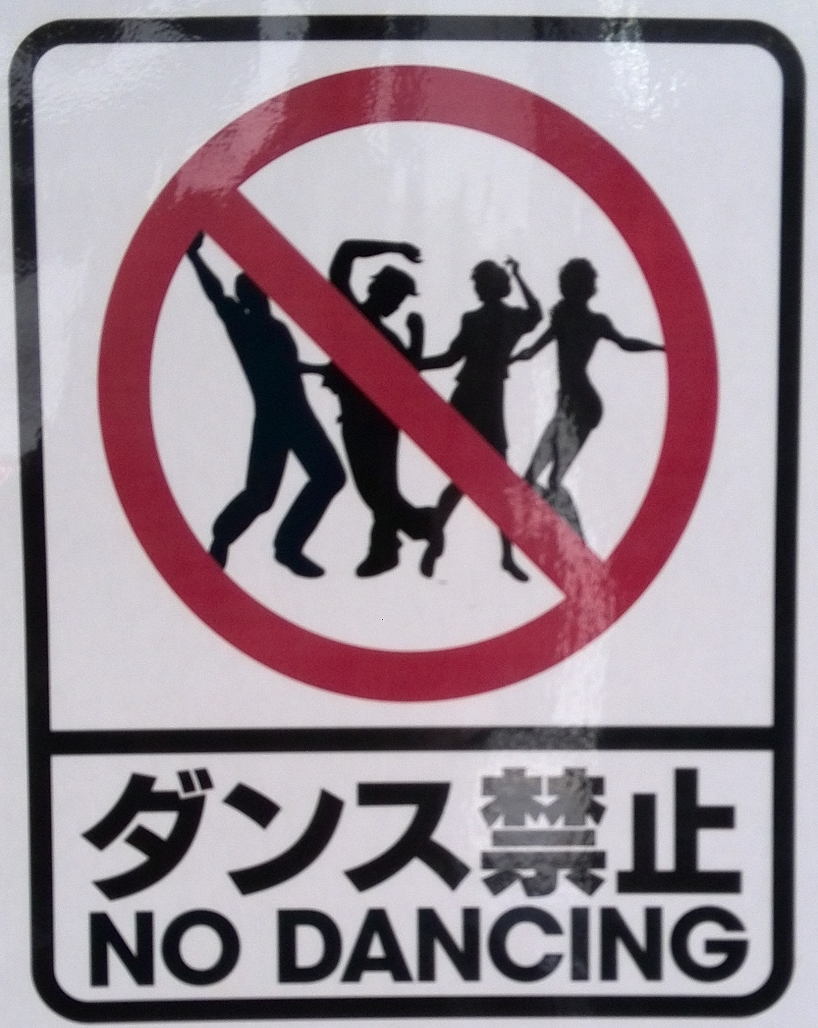 "No dancing" sign in front of a bar in Roppongi